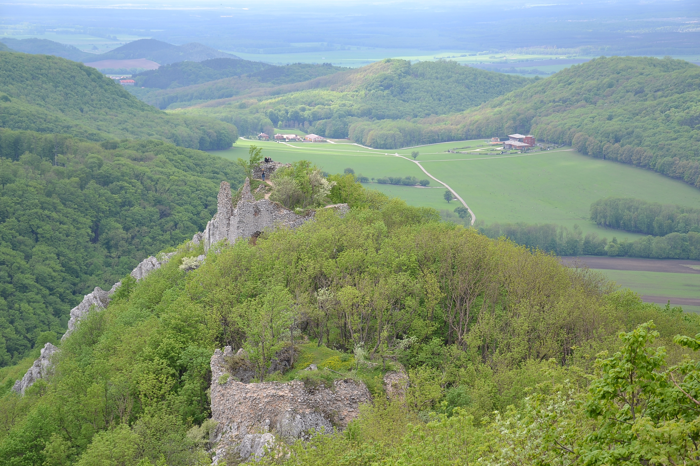 Castle Ostrý Kameň (Scharfenstein, Élskö), Slovakia